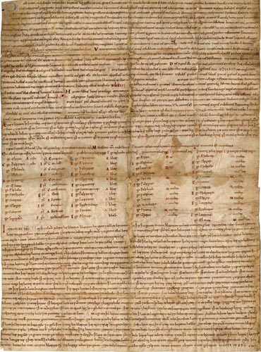 Charter of King Aethelred to Burton Abbey, confirmation of the will of Wulfric Spot, AD 1004 (11th-century copy, Burton Muniments; Sawyer number 906)